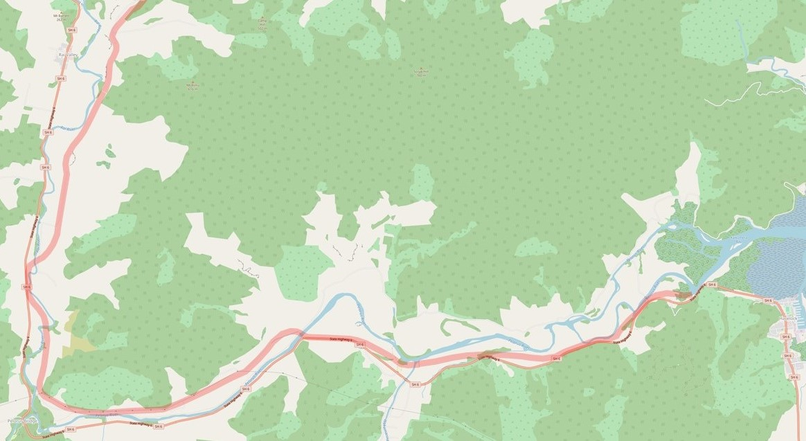 Brownlee Tramway, Marlborough (OpenStreetMap)